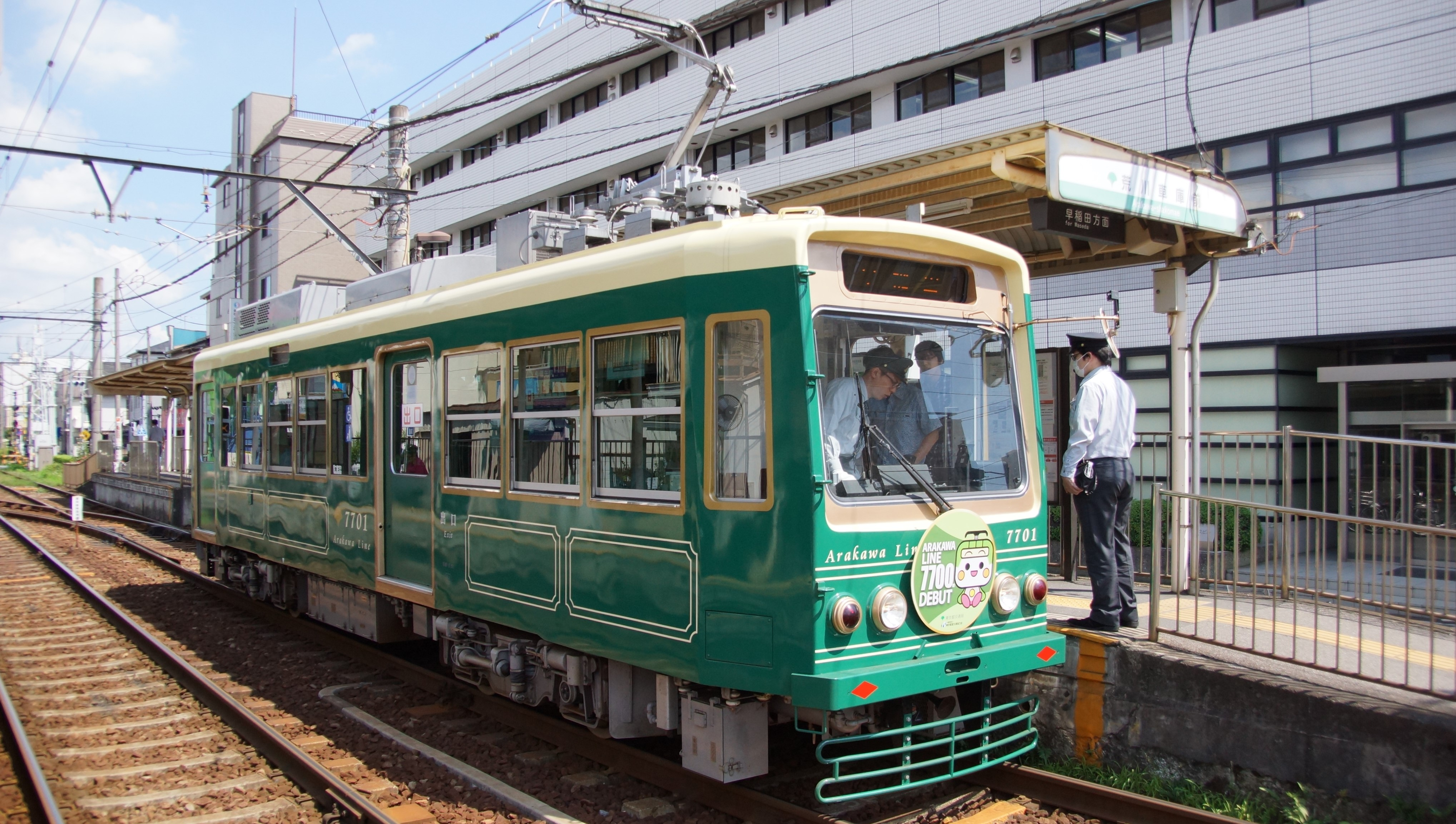 Green-liveried Toei 7700 series tramcar 7701 at Arakawa-shakomae tram stop on a service to Waseda